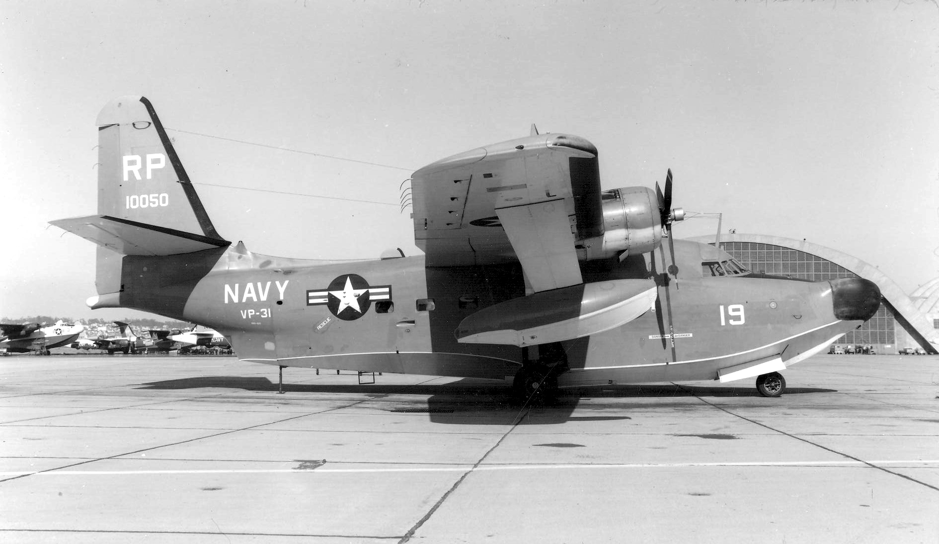 A Grumman HU-16B (ASW) Albatross wearing markings of U.S. Navy Patrol Squadron VP-31 pictured at Naval Air Station North Island, California (USA). This aircraft was assigned to VP-31 for operational trials before delivery to foreign cutomers. It is the former U.S. Air Force SA-16A, s/n 51-0050, which was delivered on 21 April 1952. It was later converted to an HU-16B (ASW). Some sources report this aircraft was deleivered first to Norway before becoming the Peruvian "FAP 521" in 1970.